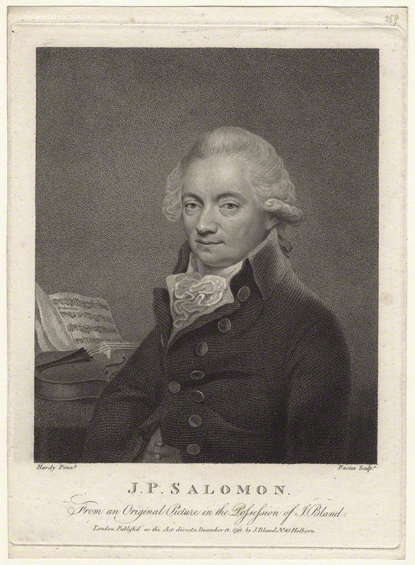 Engraving by Georg Siegmund Facius or Johann Gottlieb Facius of the German violinist Johann Peter Salomon after the oil painting by Thomas Hardy